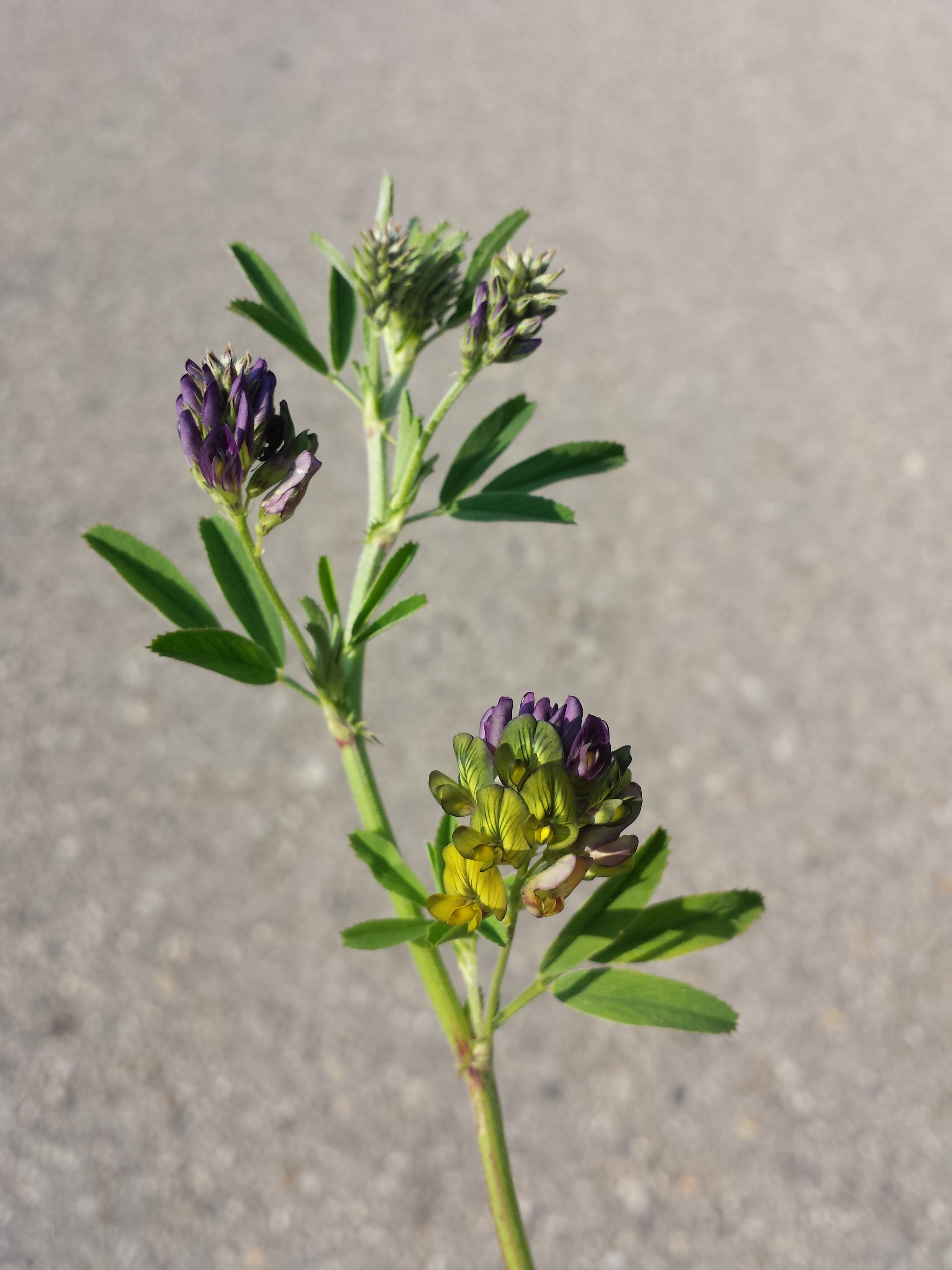 Habitus Taxonym: Medicago falcata × M. sativa ss Fischer et al. EfÖLS 2008 ISBN 978-3-85474-187-9 Location: Floridsdorf rail station, Vienna-Floridsdorf - ca. 160 m a.s.l. Habitat: ruderal area